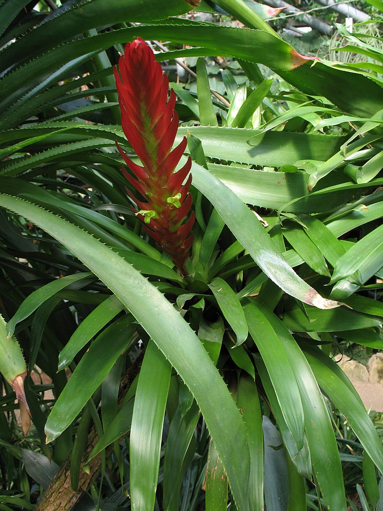 Vriesea erythrodactylon in cultivation at the Botanical Garden of Heidelberg, Germany.